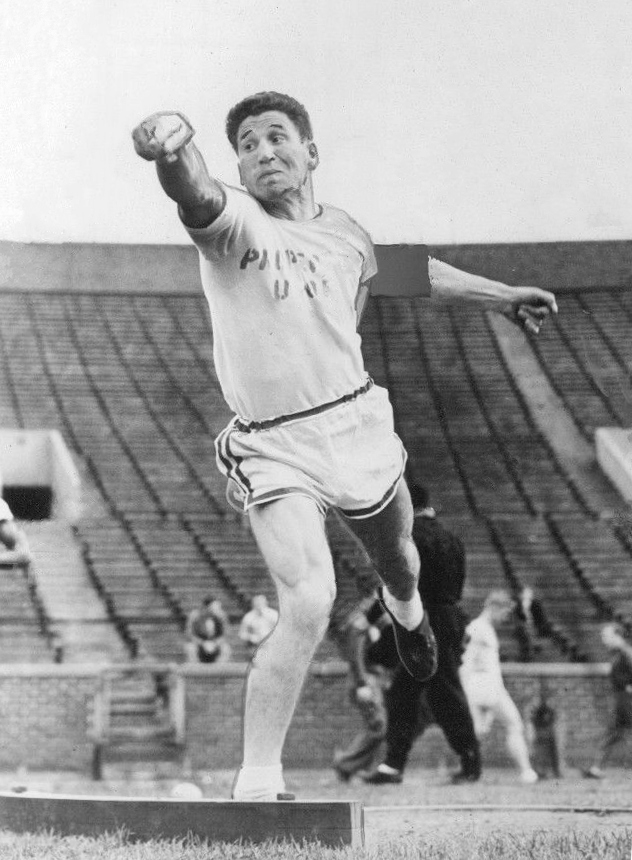 1941 Western Conference Track Meet George Paskvan Shot Put Press Photo